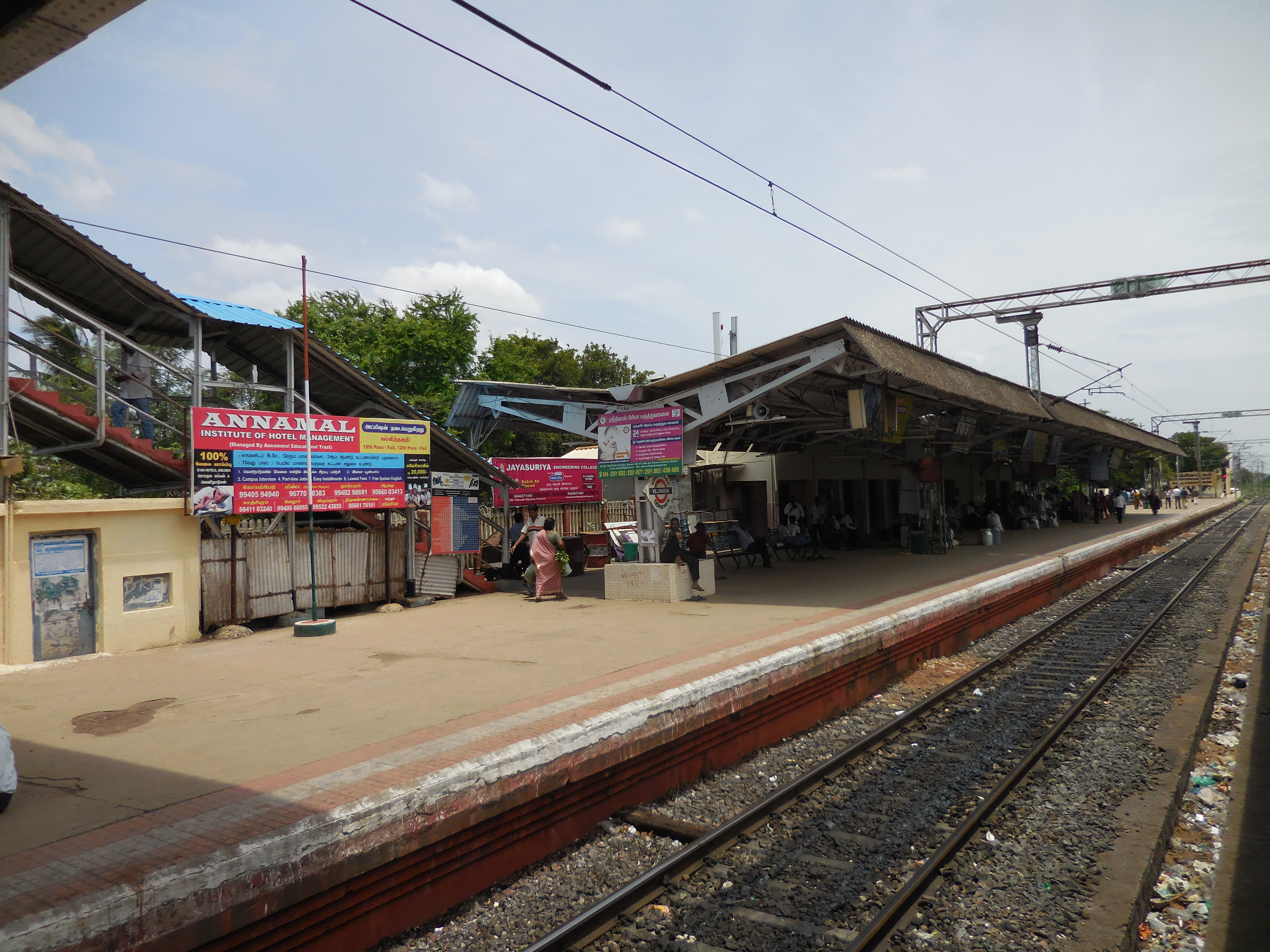 Villivakkam railway station, Chennai, towards west, taken on 15 July 2014 at noon.